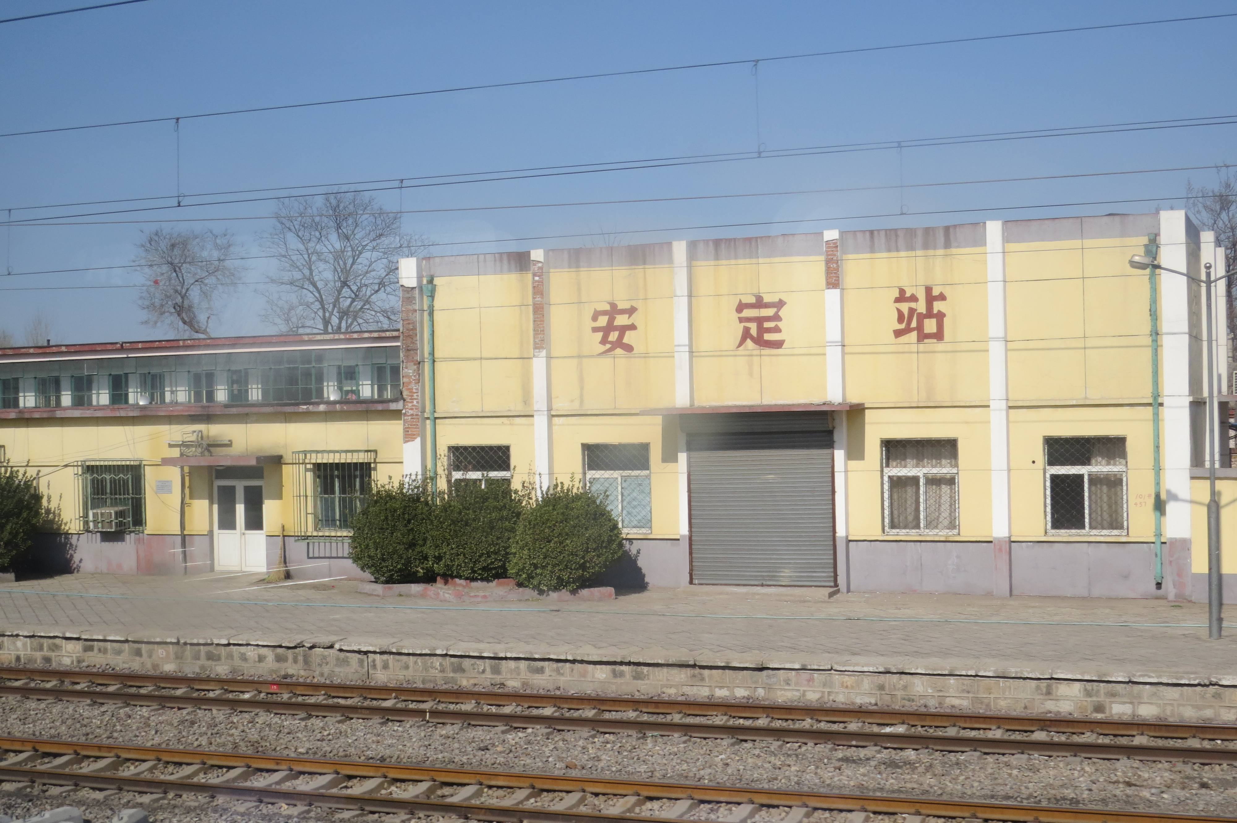 Now we entered Daxing District!